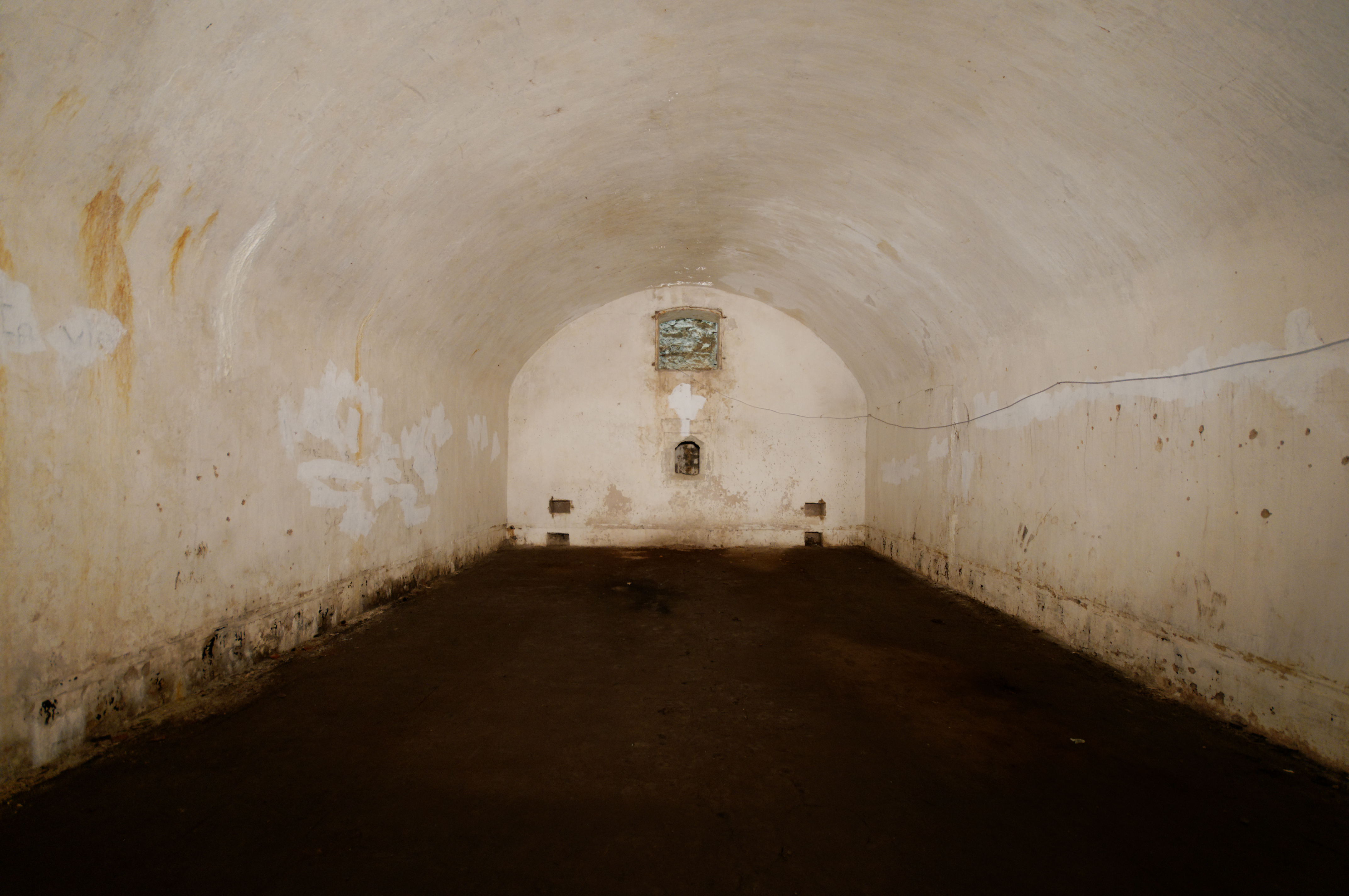 This photograph was taken with a Nikon D300 Fort du Parmont : magasin aux munitions confectionnées.